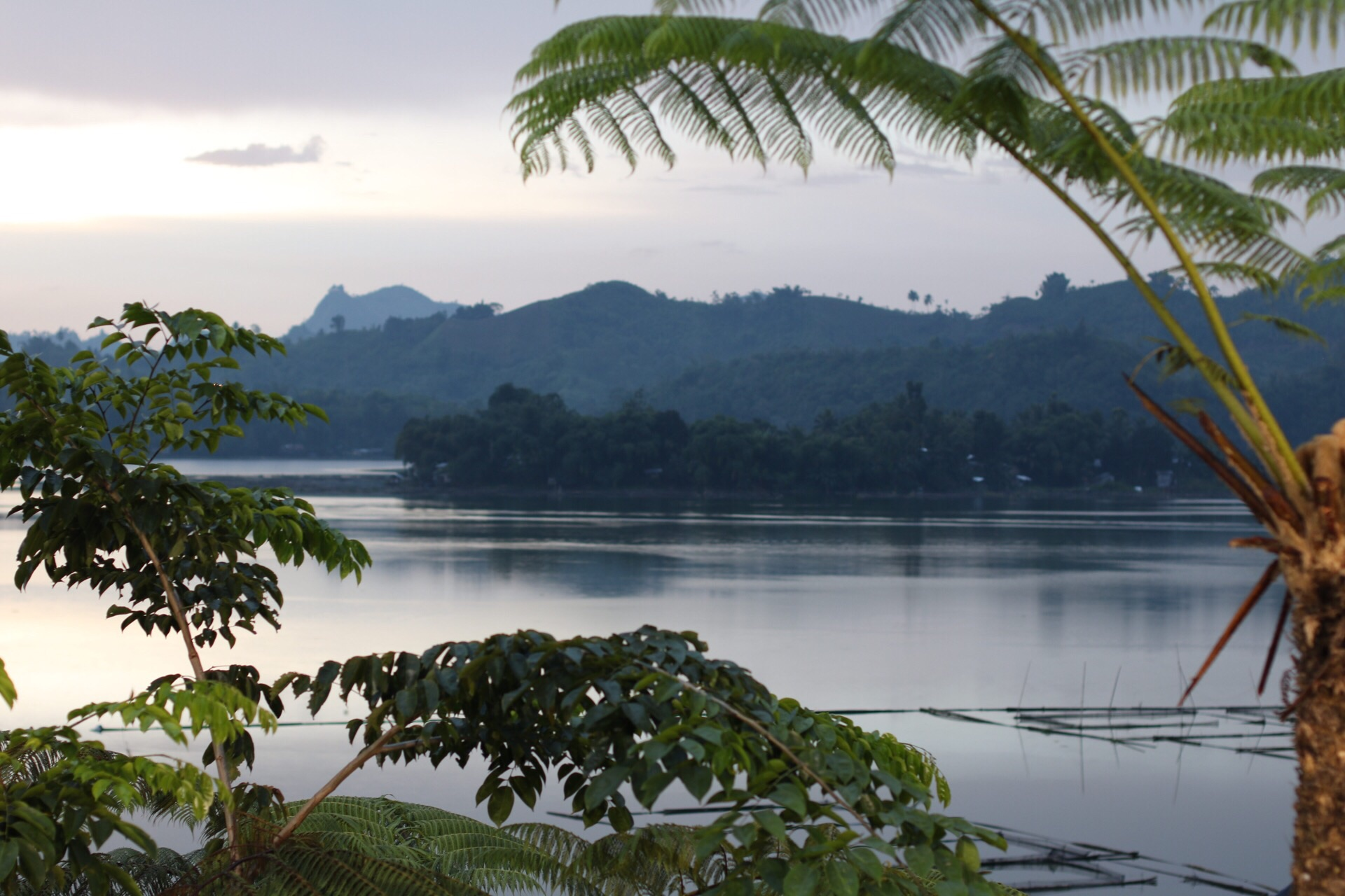 Sunset at Lake Sebu